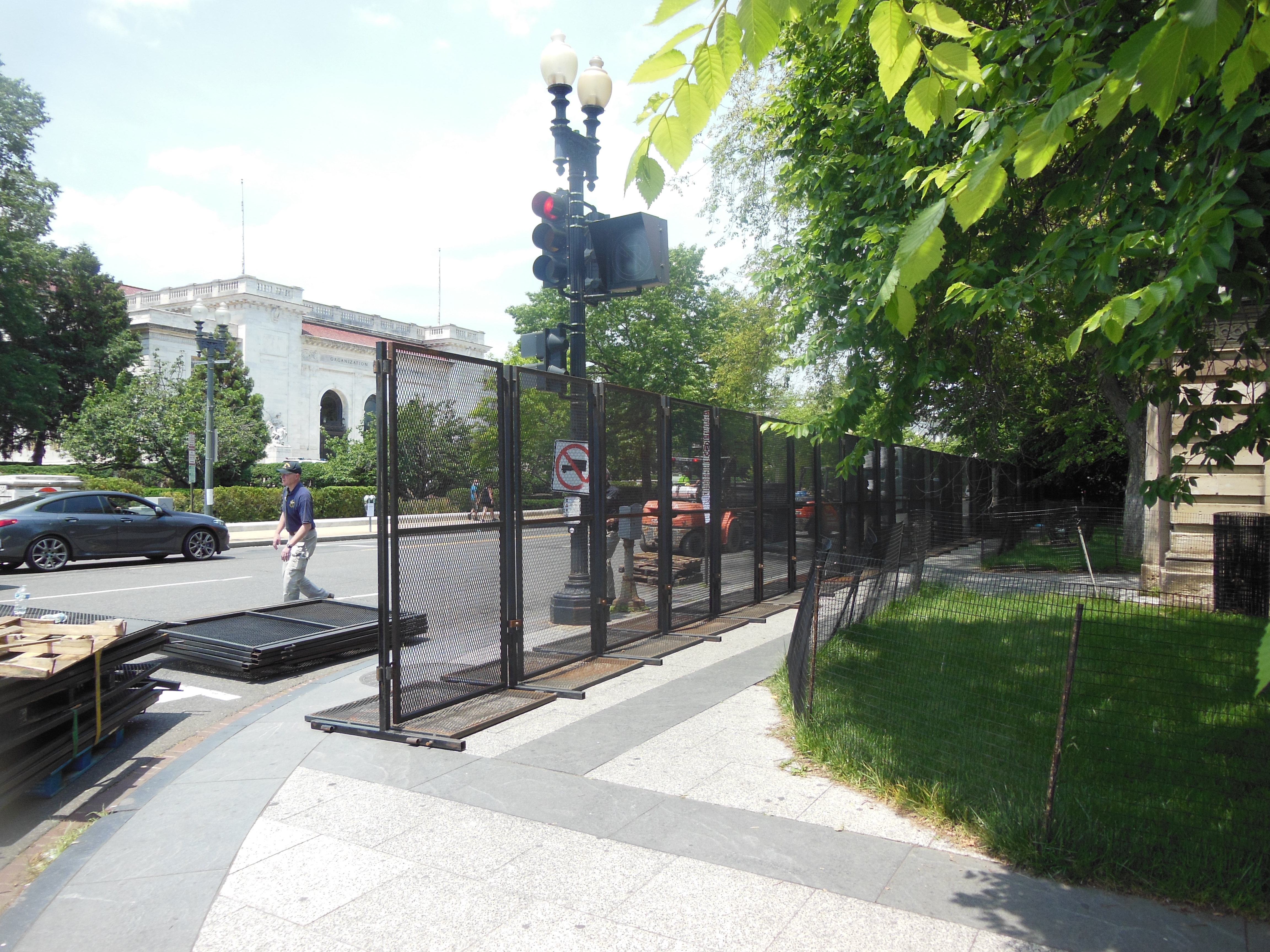 George Floyd protests in Washington, D.C. at the White House perimeter